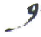 Detail of handwriting sample for Hand TH2 of the Devonshire Manuscript; "tironion 9"